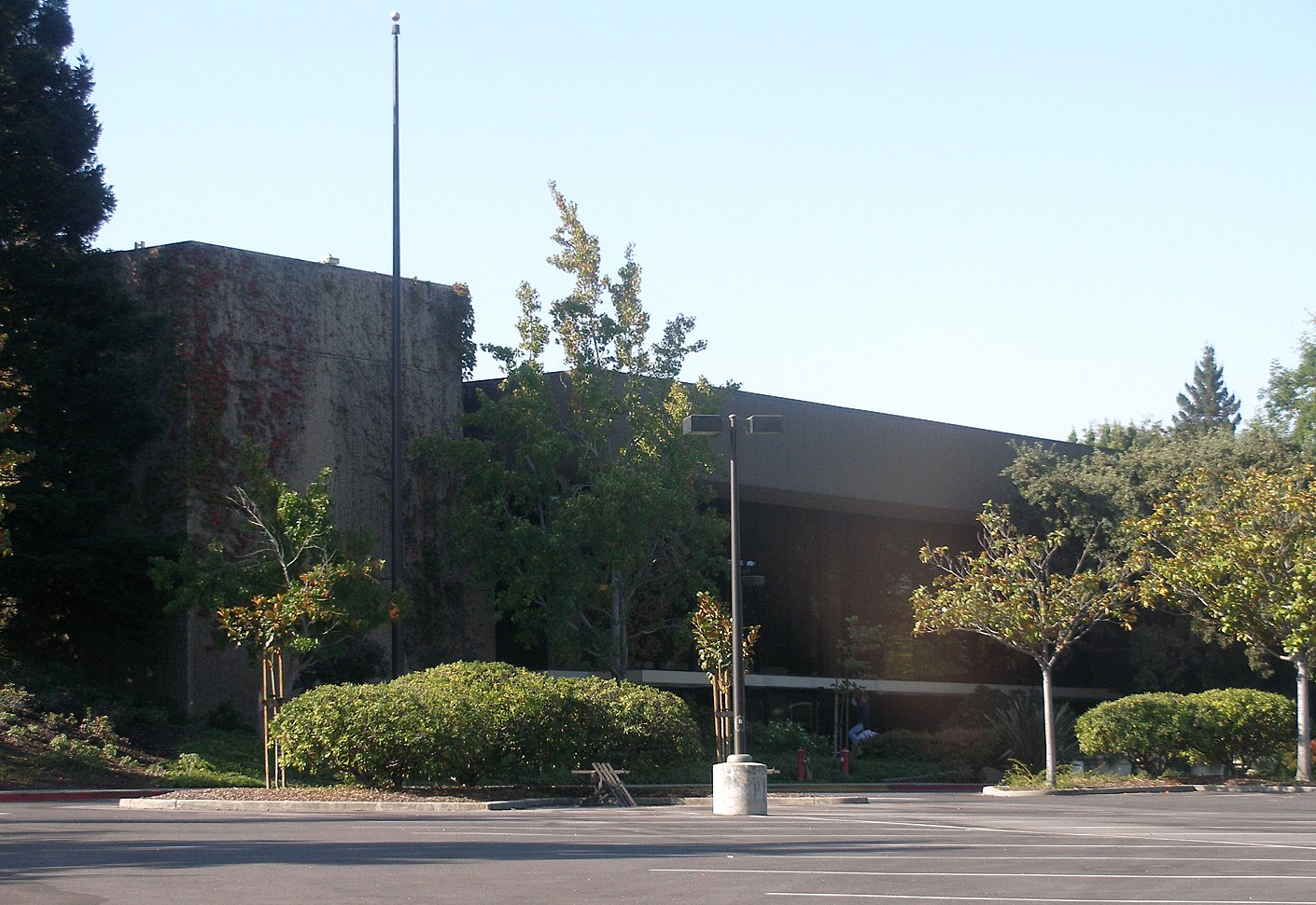 The headquarters of the Hewlett-Packard Company at 3000 Hanover Street in Palo Alto. The worker in the photo is apparently a Securitas employee (there was a Securitas utility van parked in the lot) who was fixing something above the lobby door.